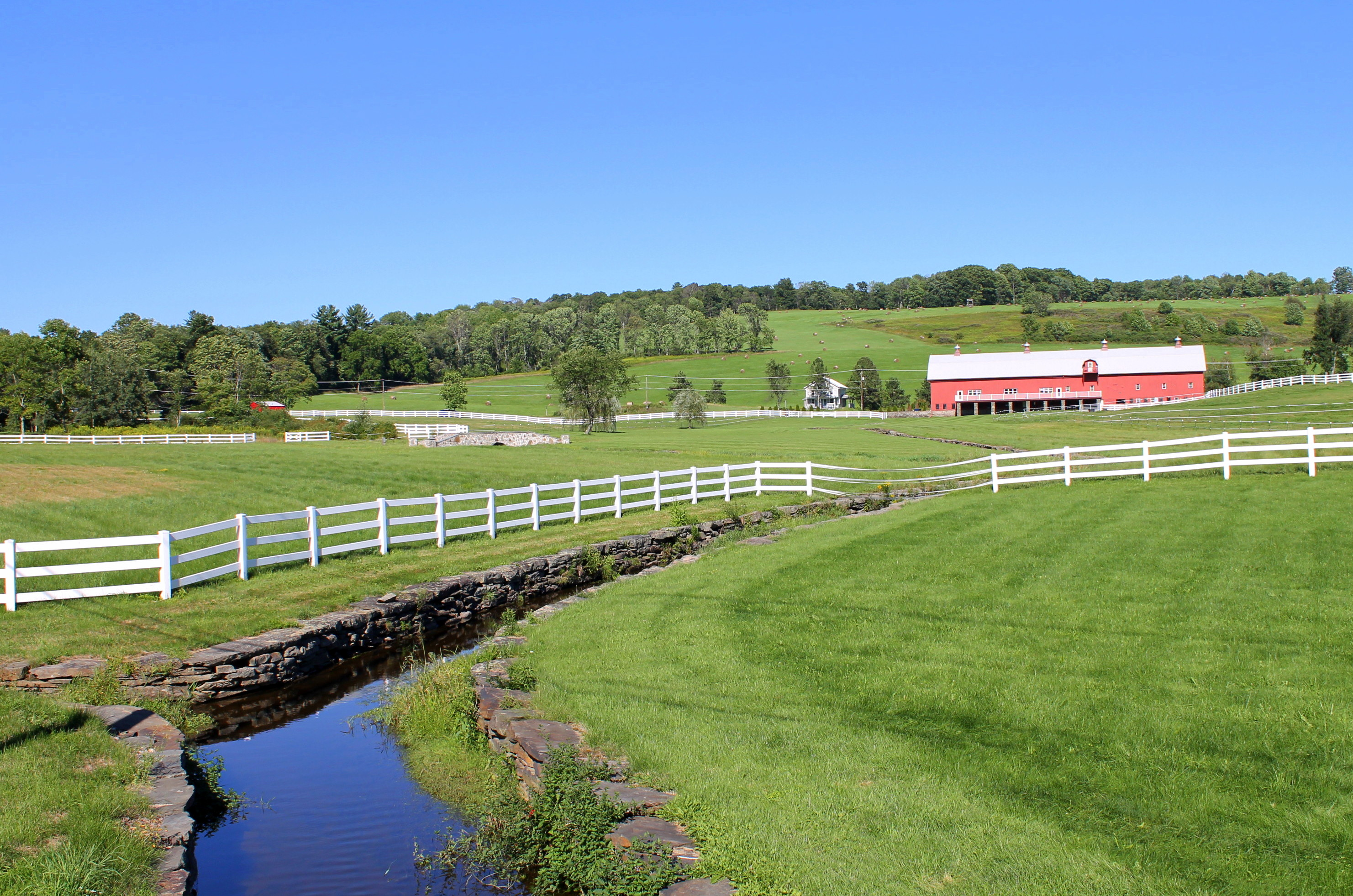 Dallas Township, Luzerne County, Pennsylvania. The stream is Trout Brook.